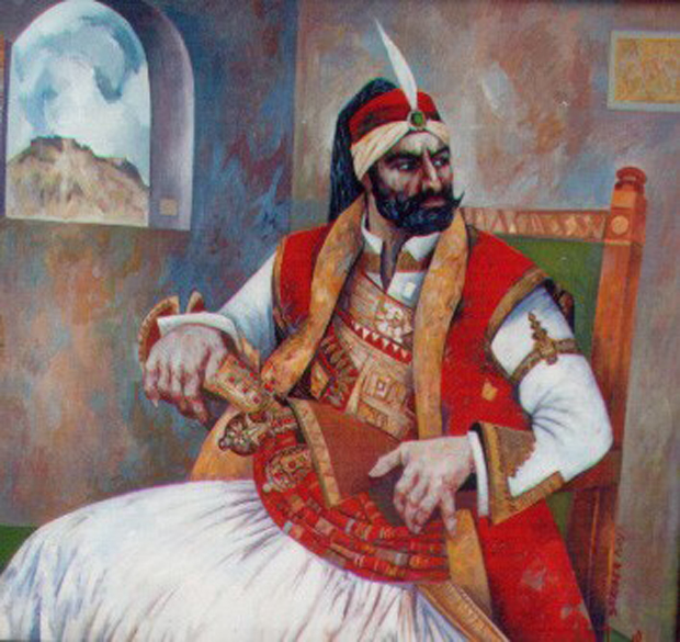 KaraMahmut Pasha Bushatlliu